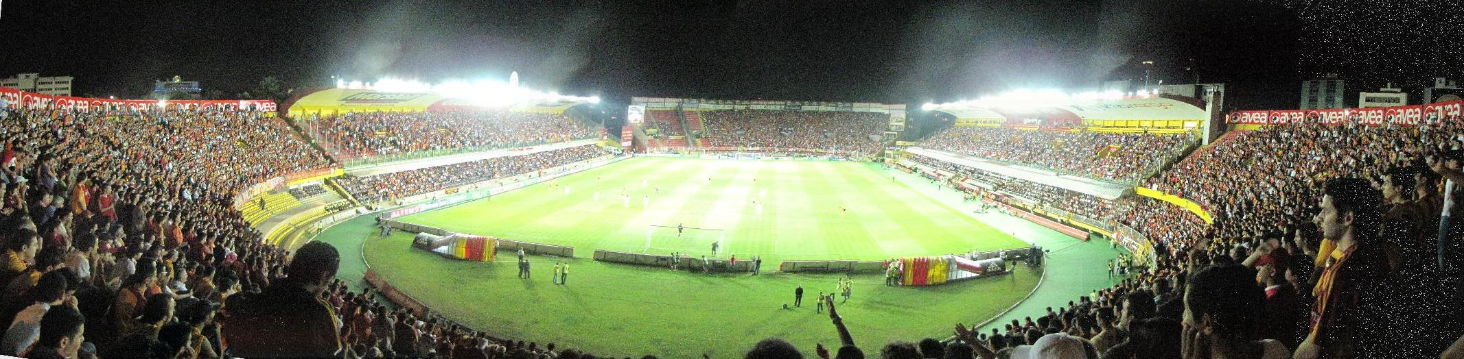 Galatasaray-Tobol European Cup 23.07.2009